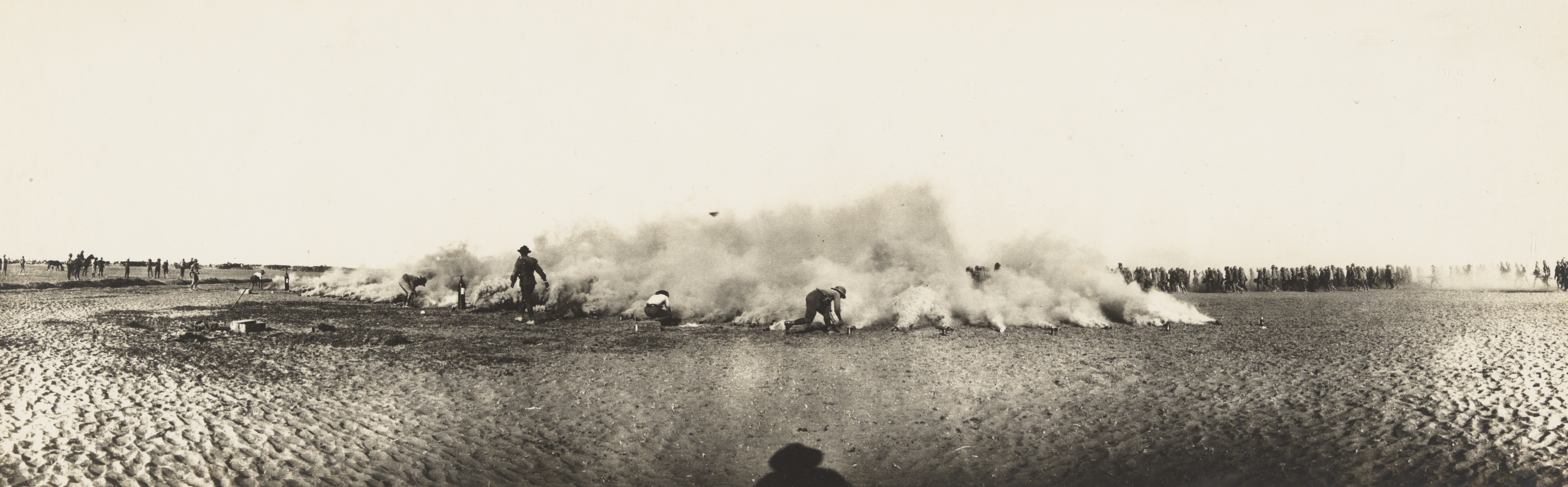 Smoke bomb demonstration, Australian troops, Palestine, ca. 1916-1917, silver gelatin print by James Allan Chauvel, State Library of New South Wales PXA 1046